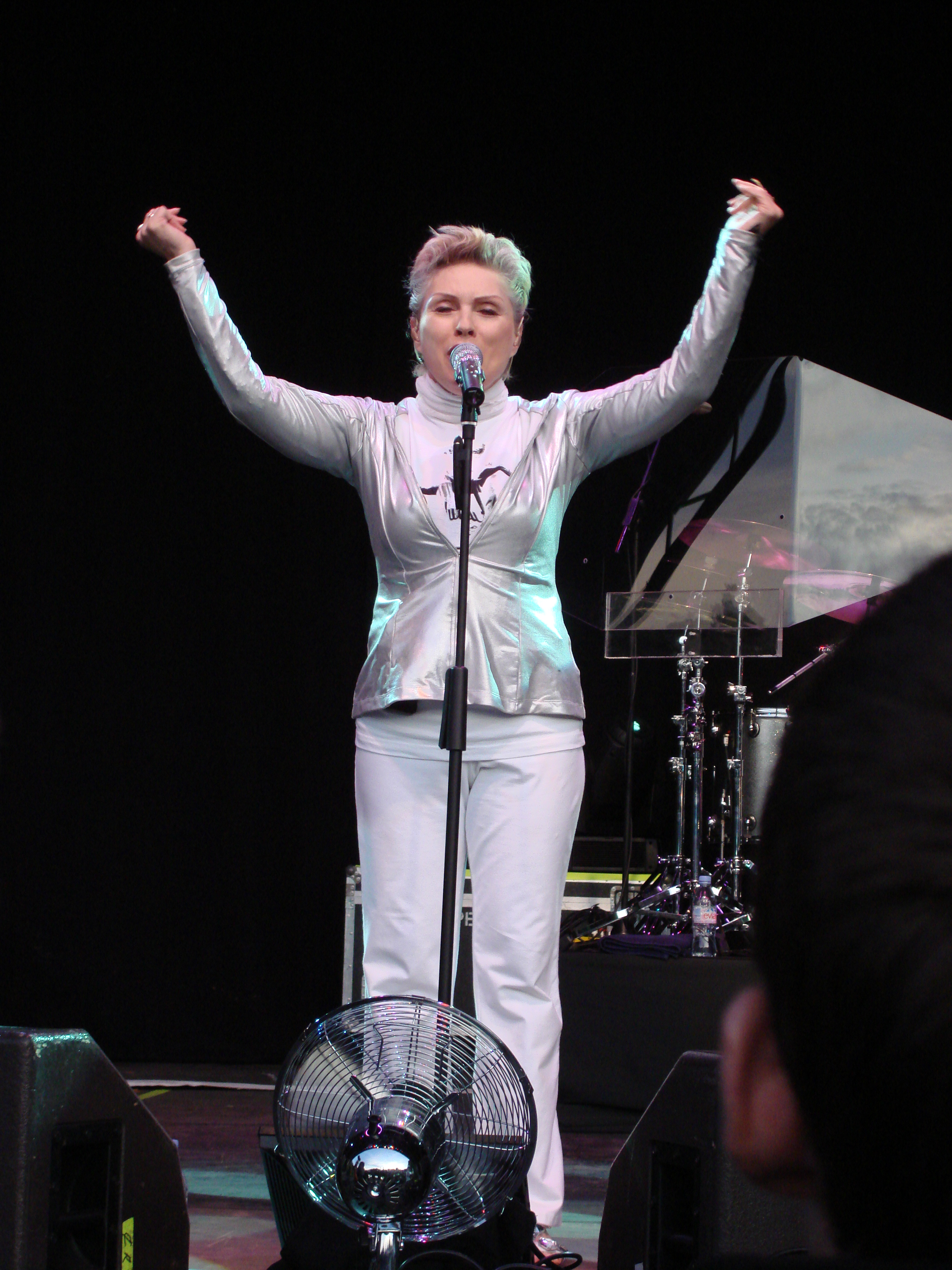 Deborah Harry, from Blondie, Thetford Forrest, UK